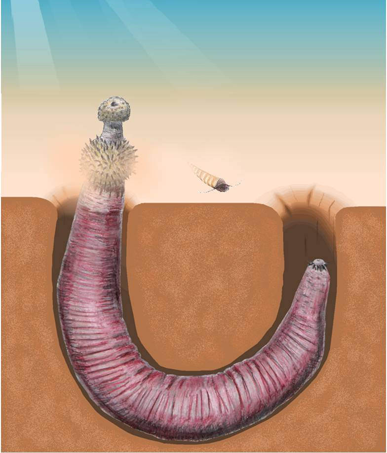 Crop of file in filename